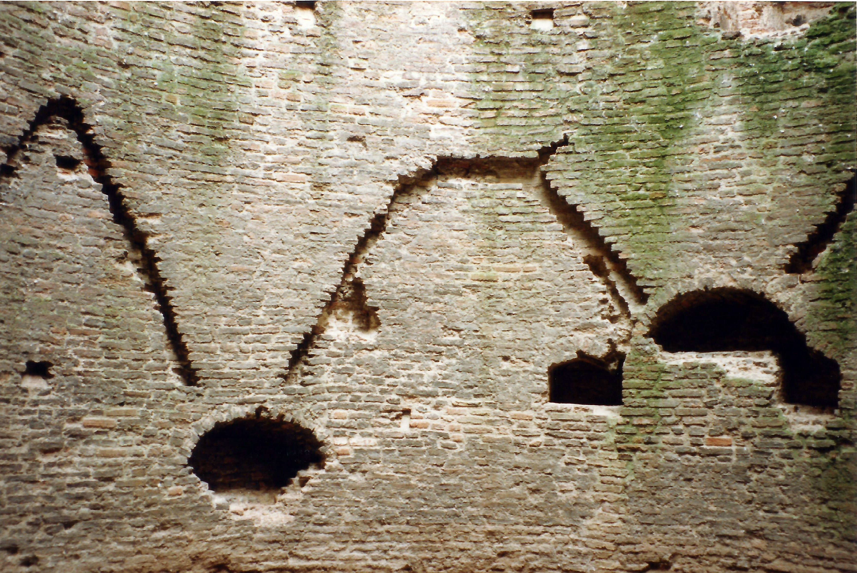 Interior wall of the Cow Tower, Norwich, showing ventilation channels